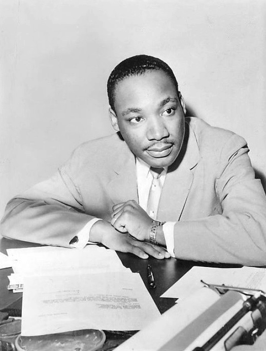 Photo of Dr. Martin Luther King, Jr. from the American Broadcasting Company program Open Hearing. This seems to have been a news-related discussion program.